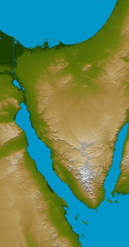 Topography of Sinai Peninsula image description here larger version here Image courtesy: NASA/JPL-Caltech